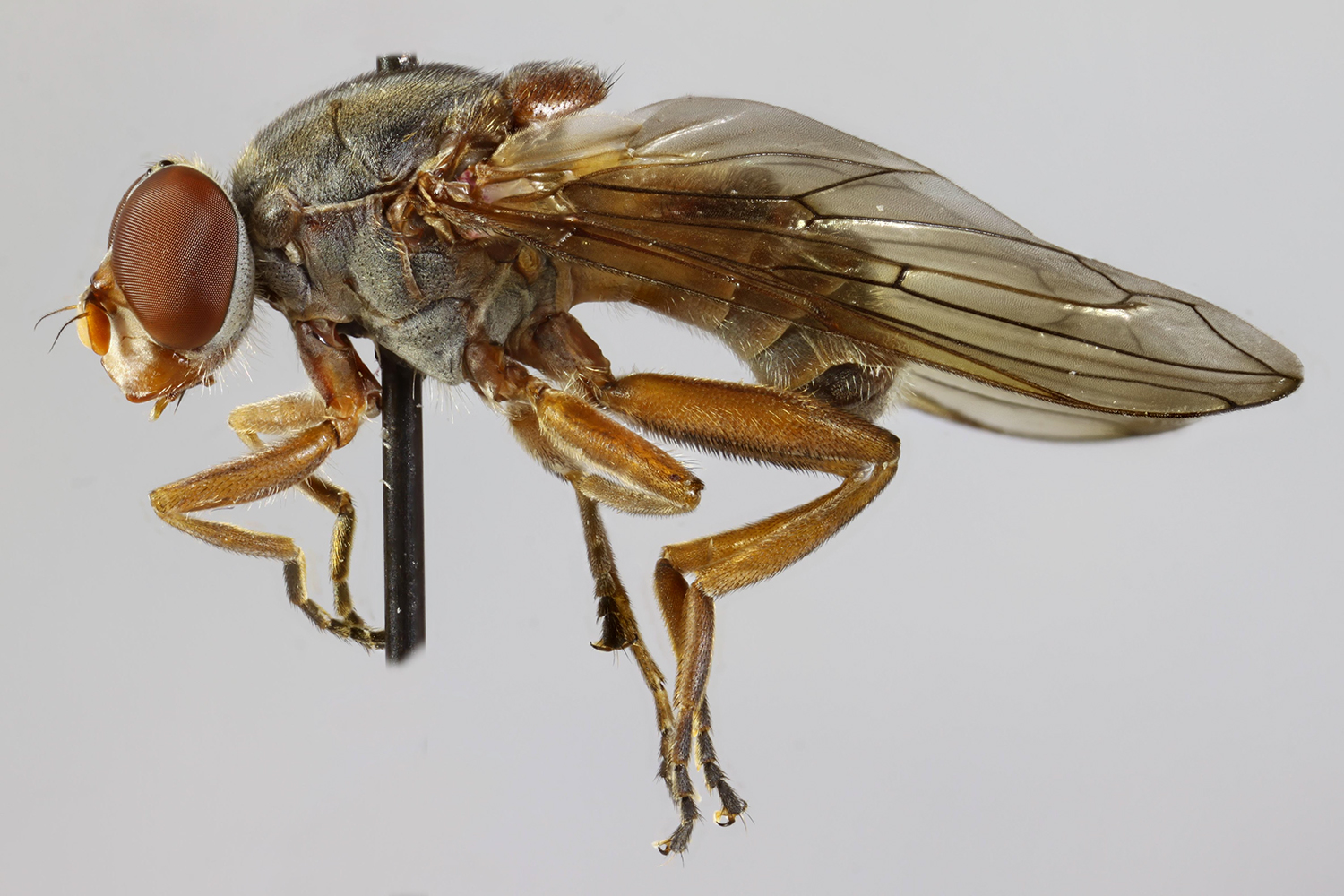 Brachyopa scutellaris, North Wales, May 2014